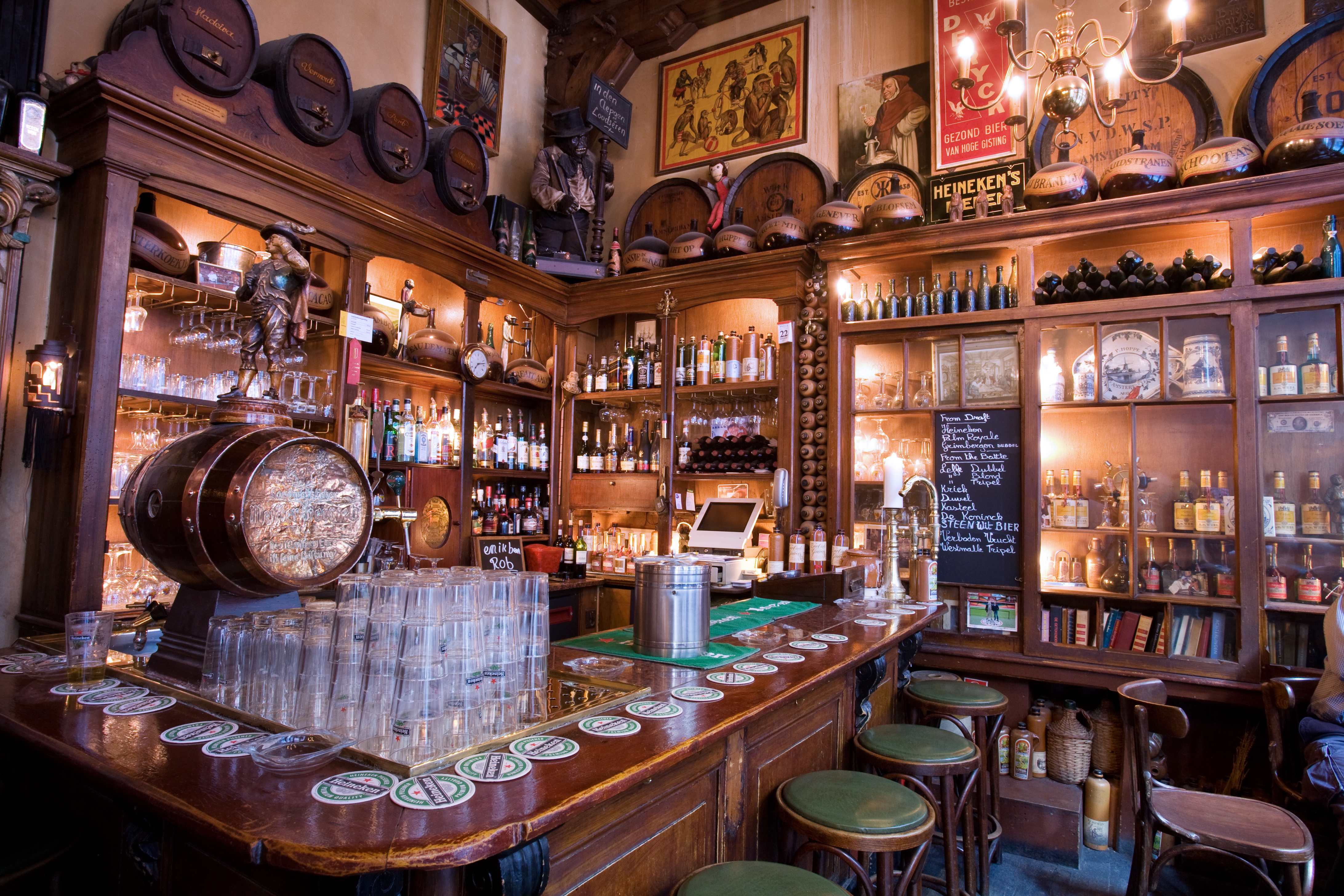 Beer House, Amsterdam, The Netherlands